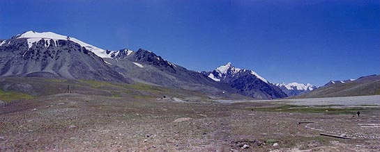 The Khunjerab Pass at the Karakoram Range viewed from Pakistan side. The border fence can be seen at the left. (stitched photo)